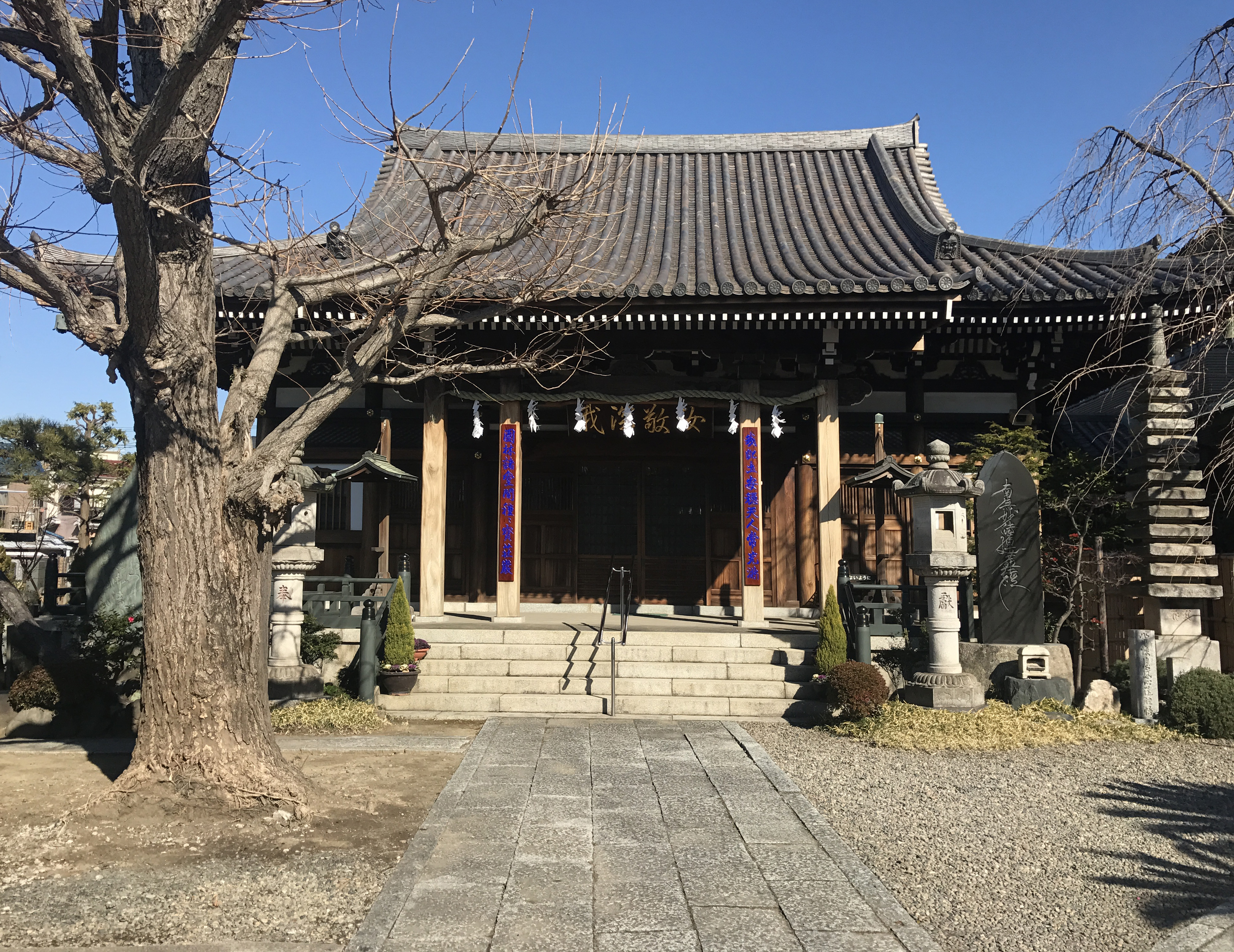 Jōren-ji temple, located in Saiwai-ku, Kawasaki, Kanagawa Pref., Japan